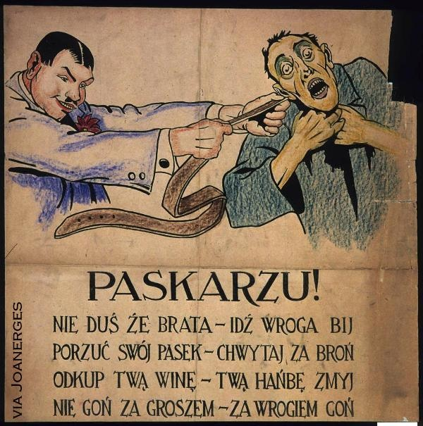 Polish propaganda poster